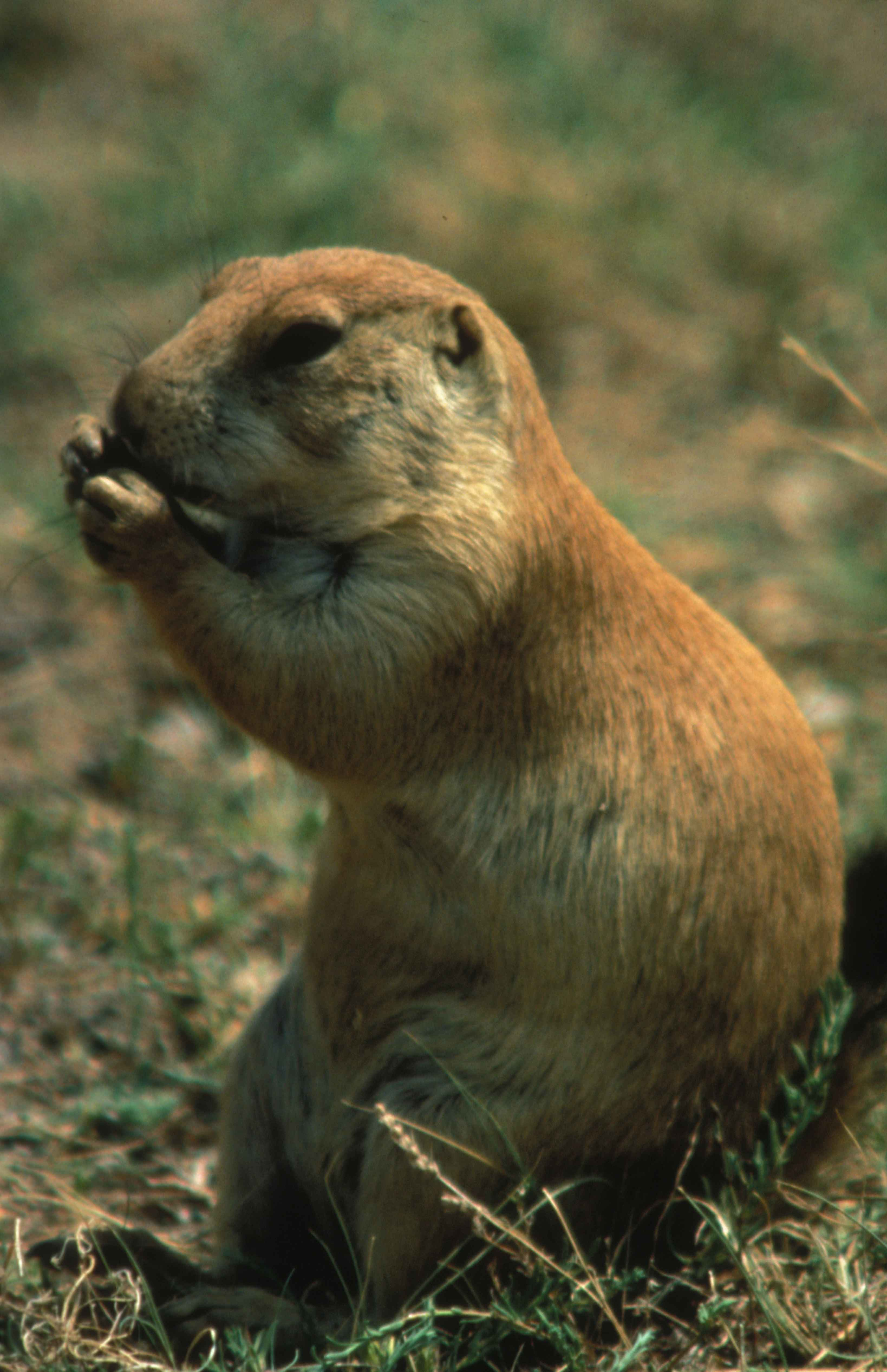 Image title: Black tailed prairie dog eating Image from Public domain images website